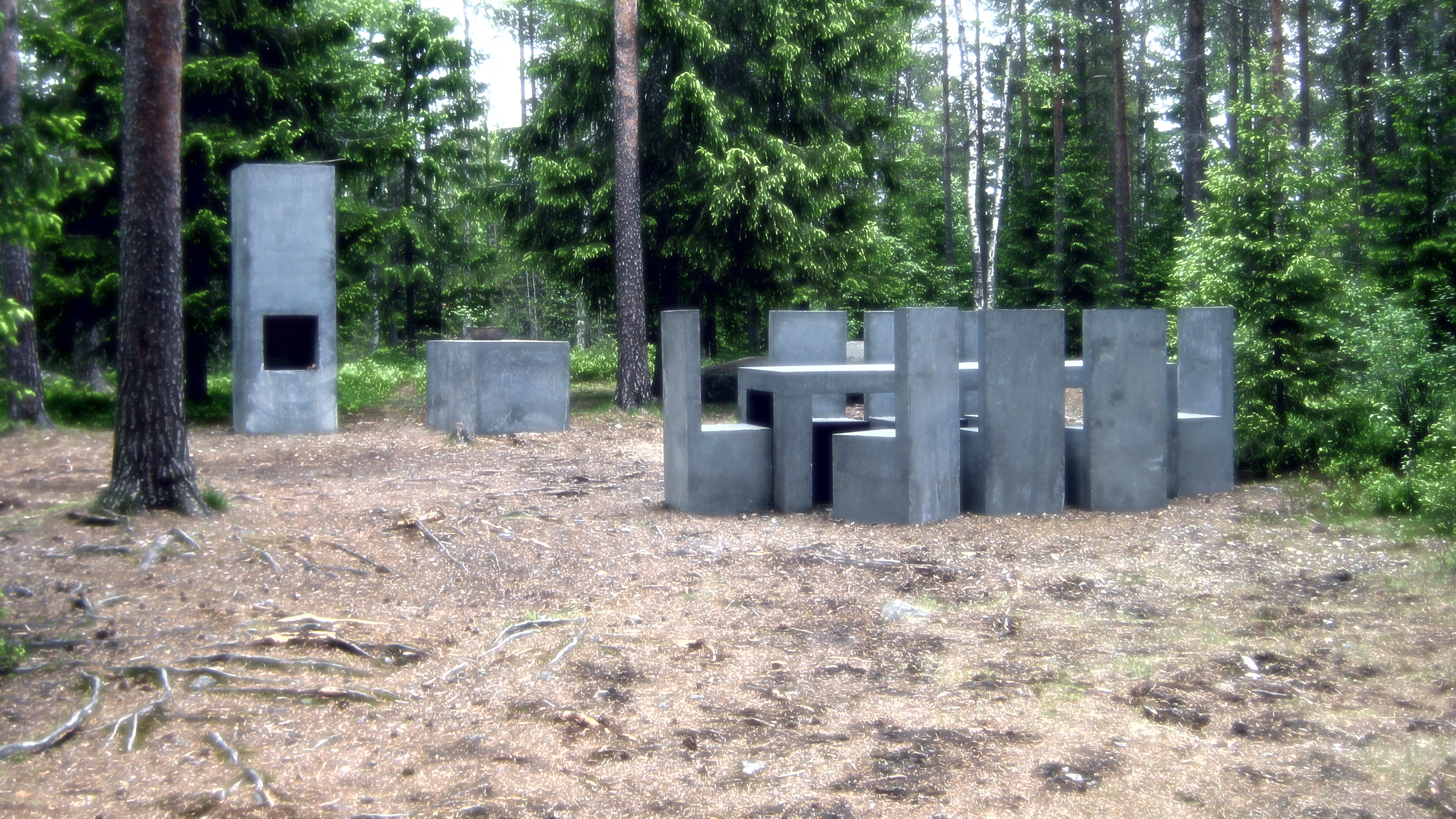 Taket i mitt rum, Concrete and bronze installation by Mariel Rosendahl, Umeå, Sweden